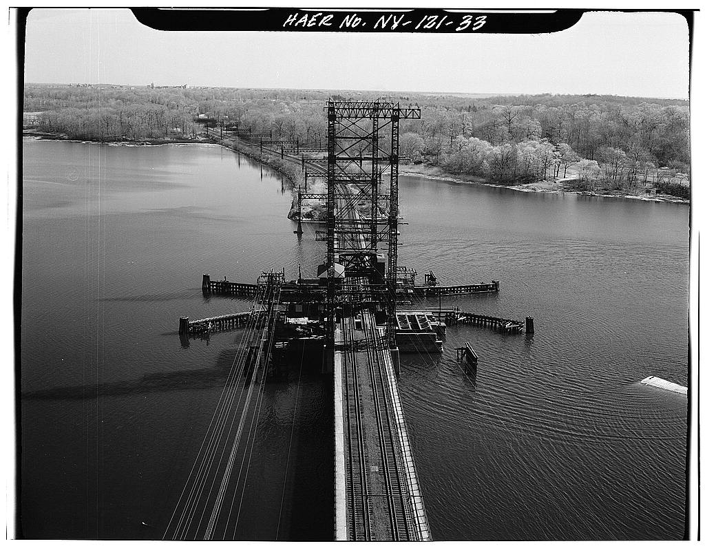 The Hutchinson River Bridge, Bronx, New York, carries the Amtrak Northeast Corridor line.